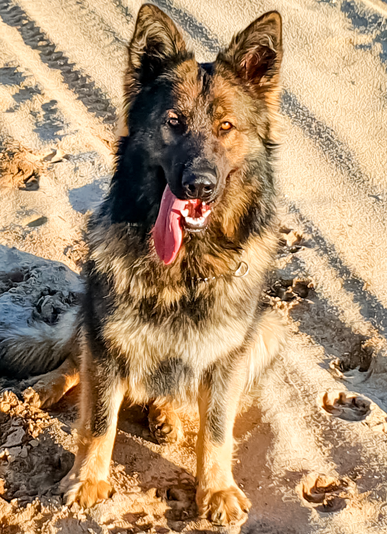 Old Line German shepperd